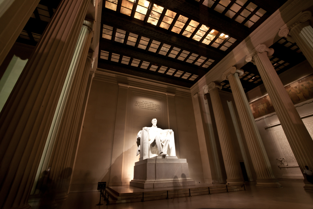 Abraham Lincoln Statue Lincoln Memorial Washington, D.C, USA